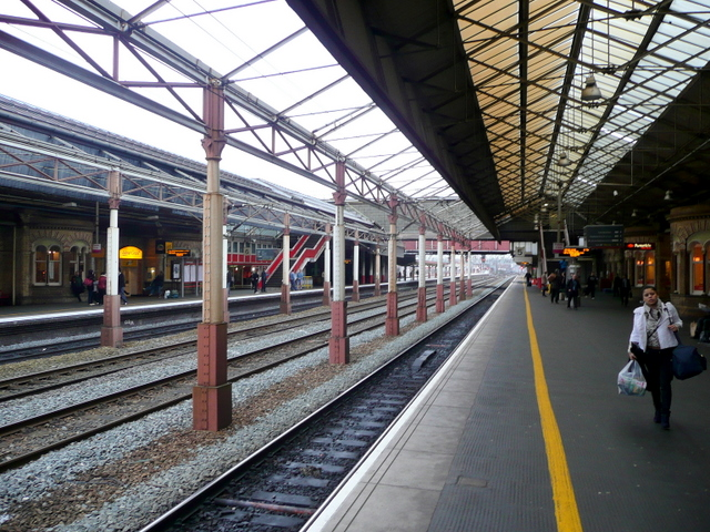 Crewe Railway Station 1 Looking north along platform 5.